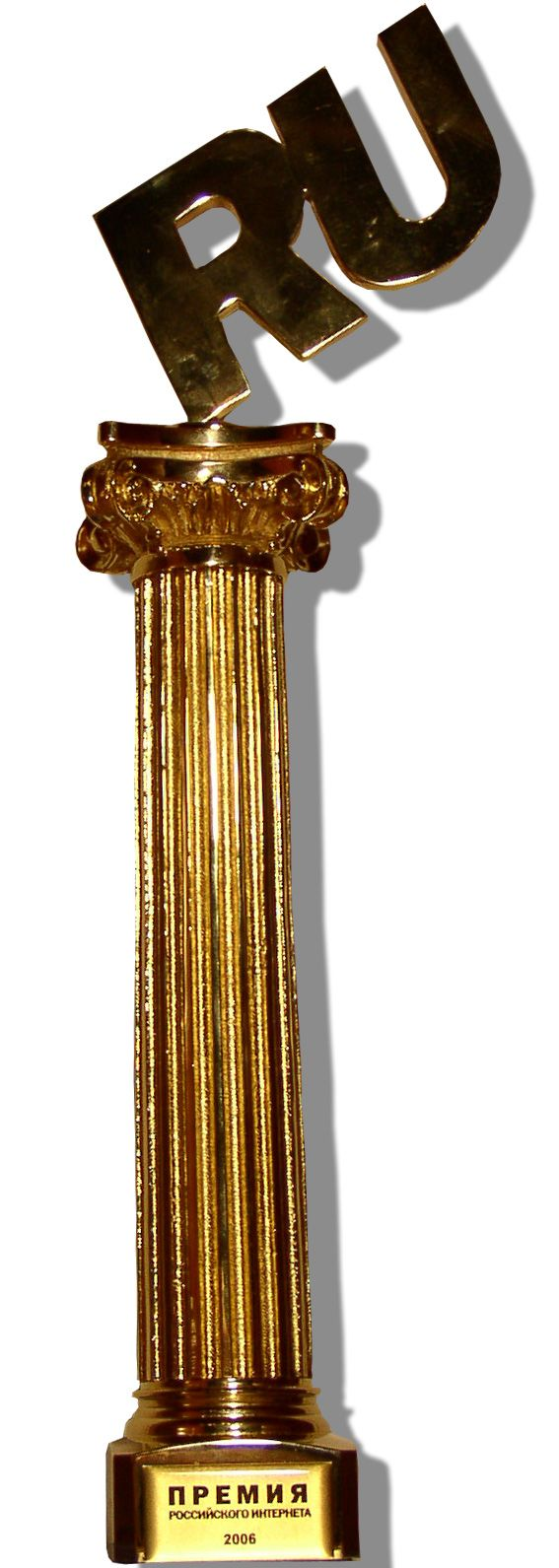 The award won by Russian Wikipedia in 2006 in the category of "science and education". ([1])